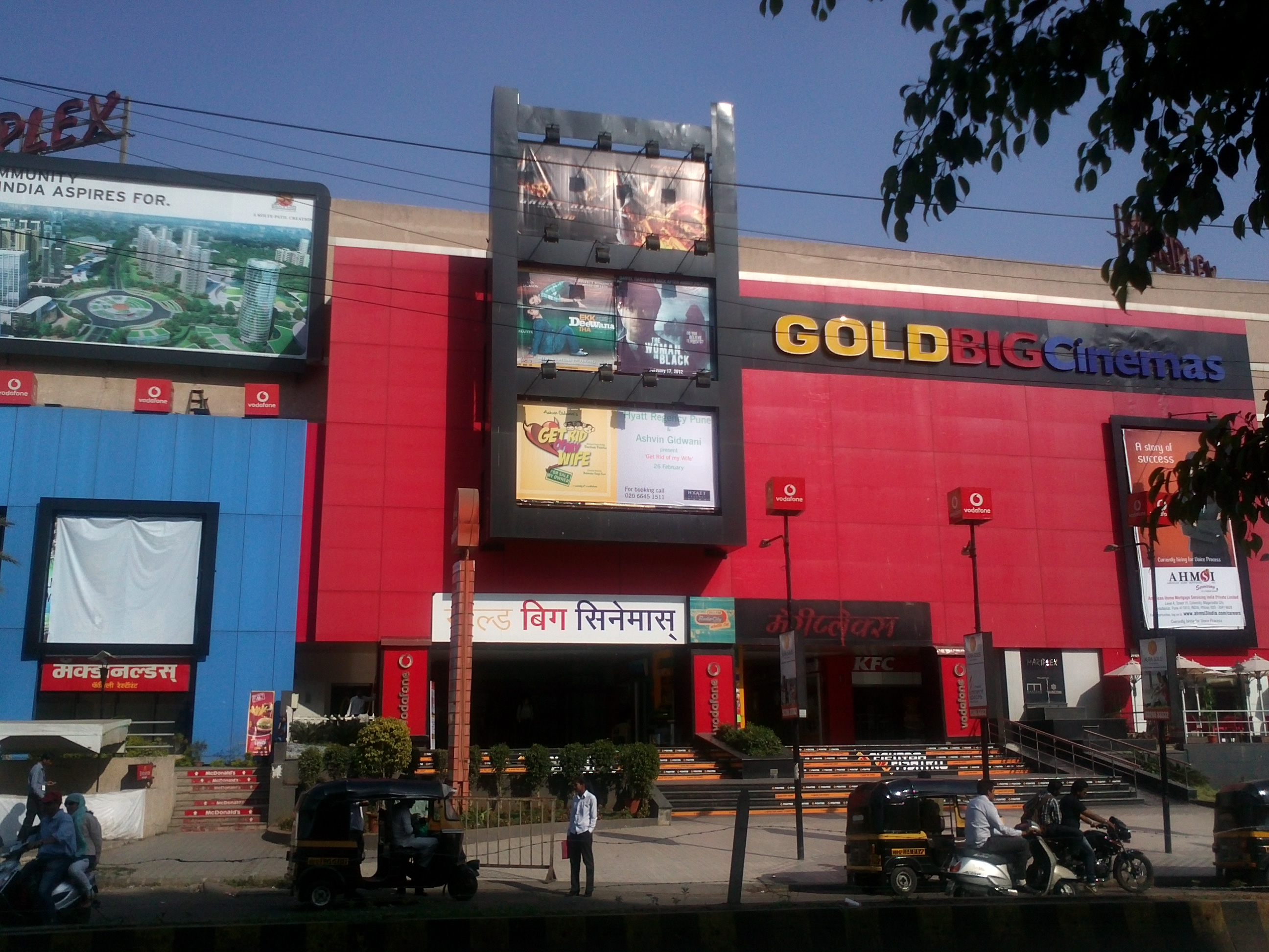 Gold Big Cinemas, Kalyaninagar, Pune